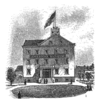 Engraving of Scudder's American Museum circ#REDIRECTa 1825